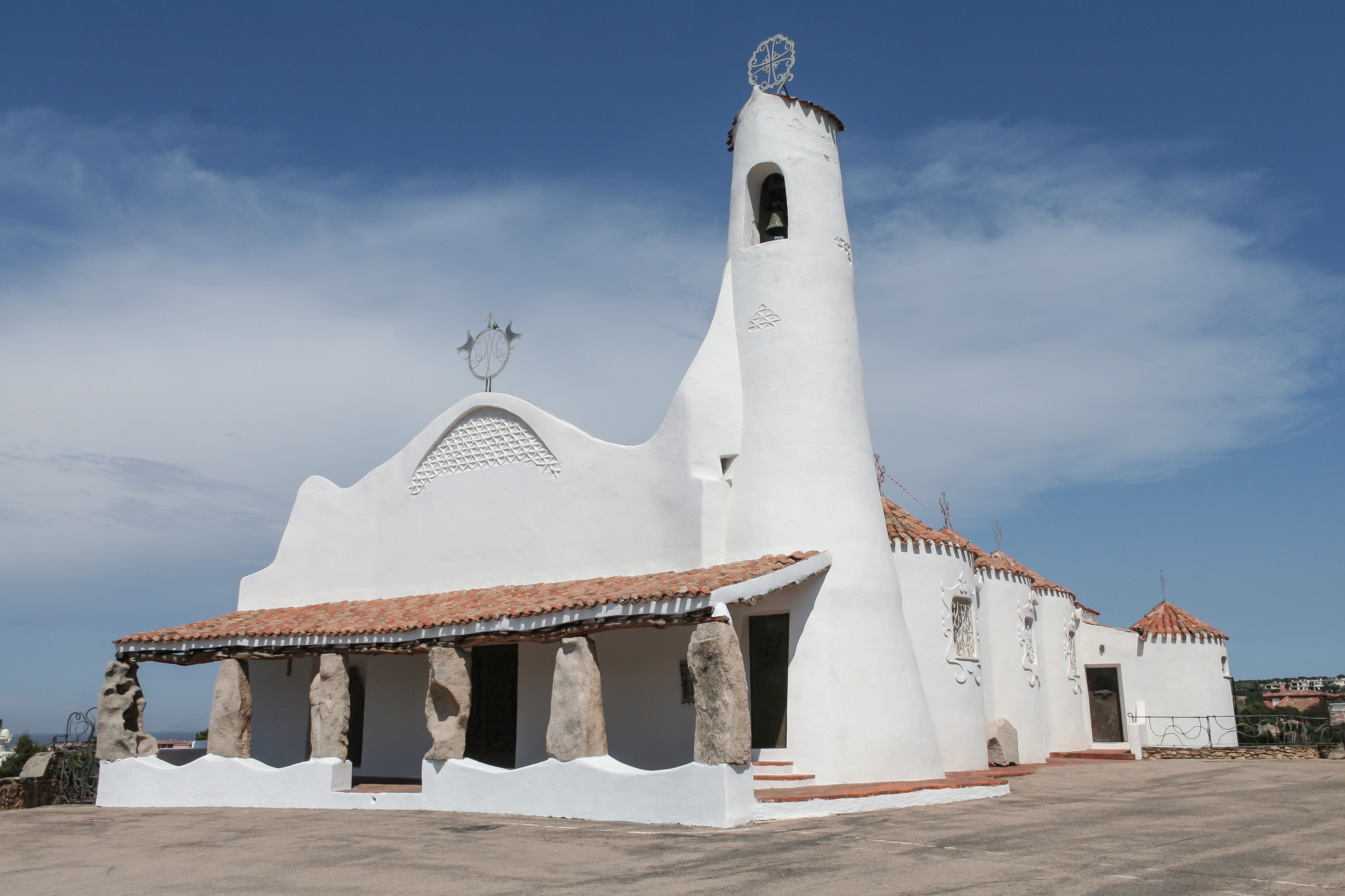 The church Stella Maris in Porto Cervo.